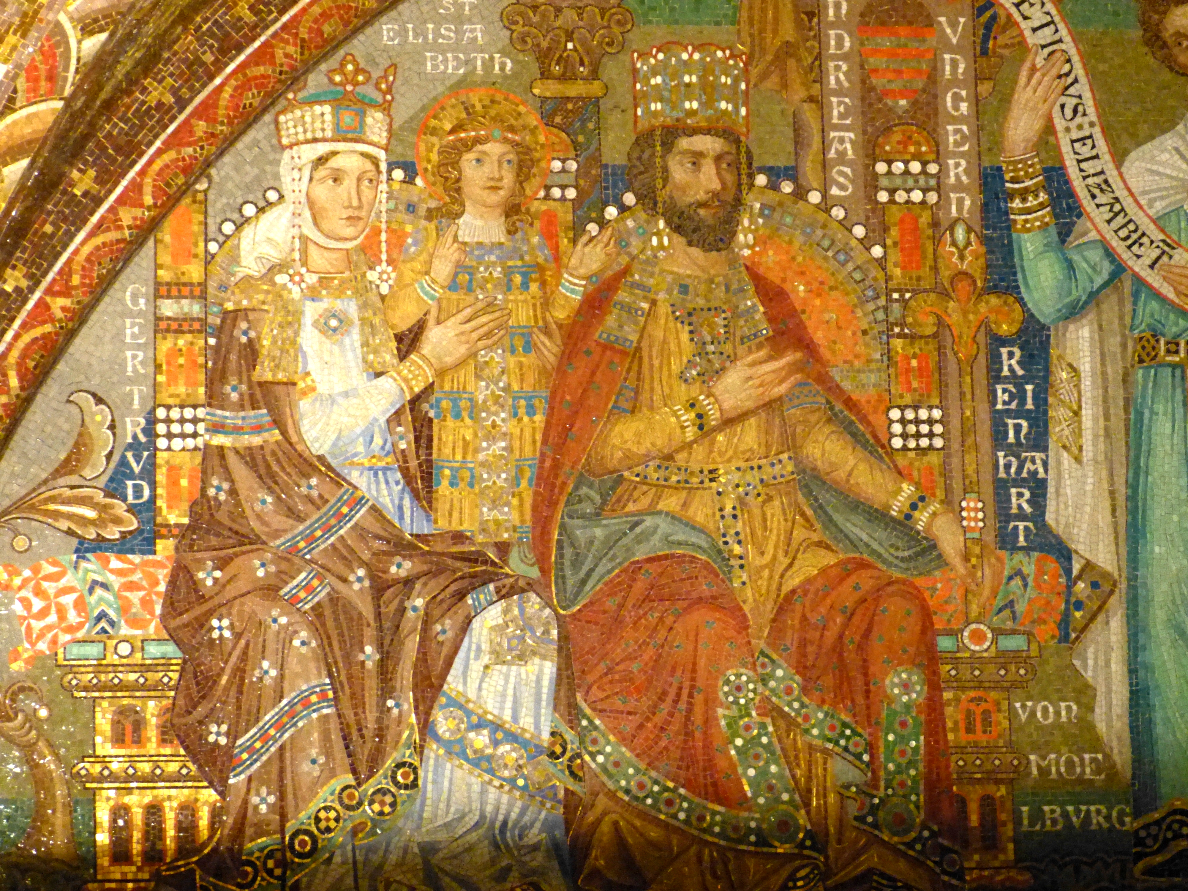 Wartburg ( Eisenach/Thuringia ). Chamber of Elisabeth of Hungary - Life of Elisabeth of Hungary on mosaics ( 1902-1906 ): Thuringian envoys are asking the king of Hungary for his daughter Elisabeth to be married with the eldest son of Count Herman of Thuringia.